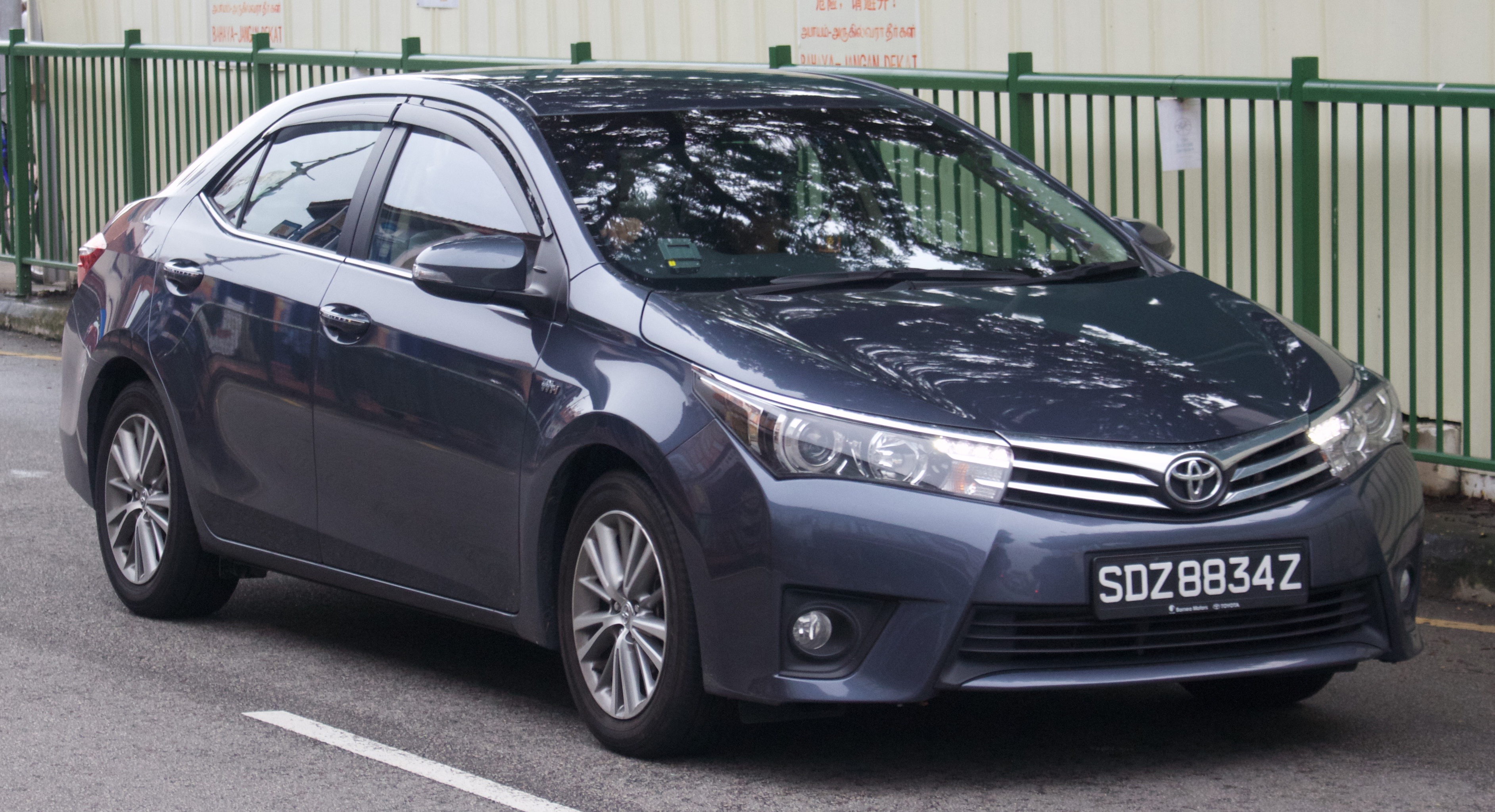 2015 Toyota Corolla Altis (ZRE172R) 1.6 sedan, photographed in Singapore. Vehicle registration enquiry results Jurisdiction Singapore Registration SDZ8834Z Chassis code MR053REH104527113 Engine code 1ZRY152011 Year of manufacture 2015